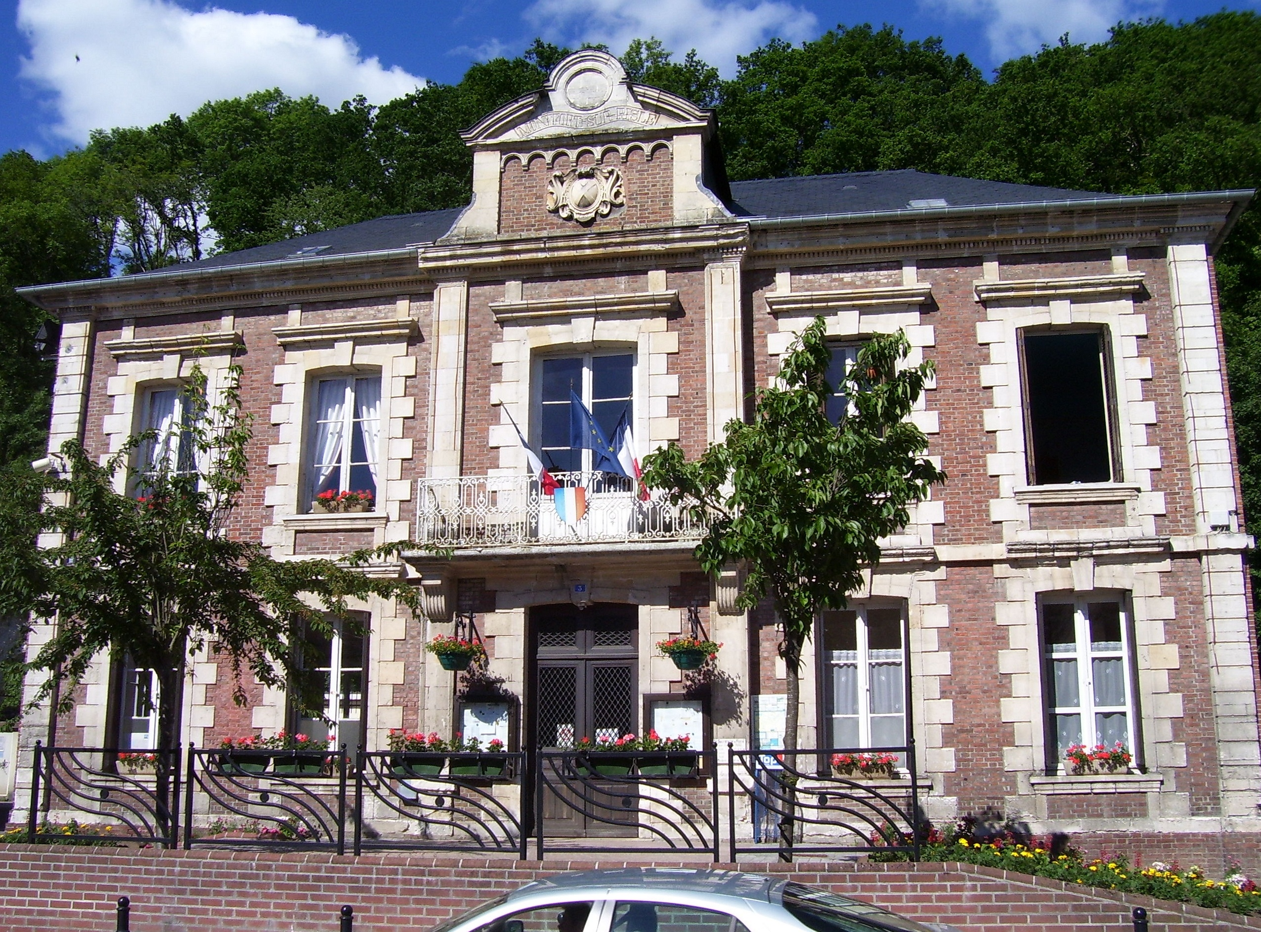 Town hall of Montfort-sur-Risle (departement Eure, Haute-Normandie, France).